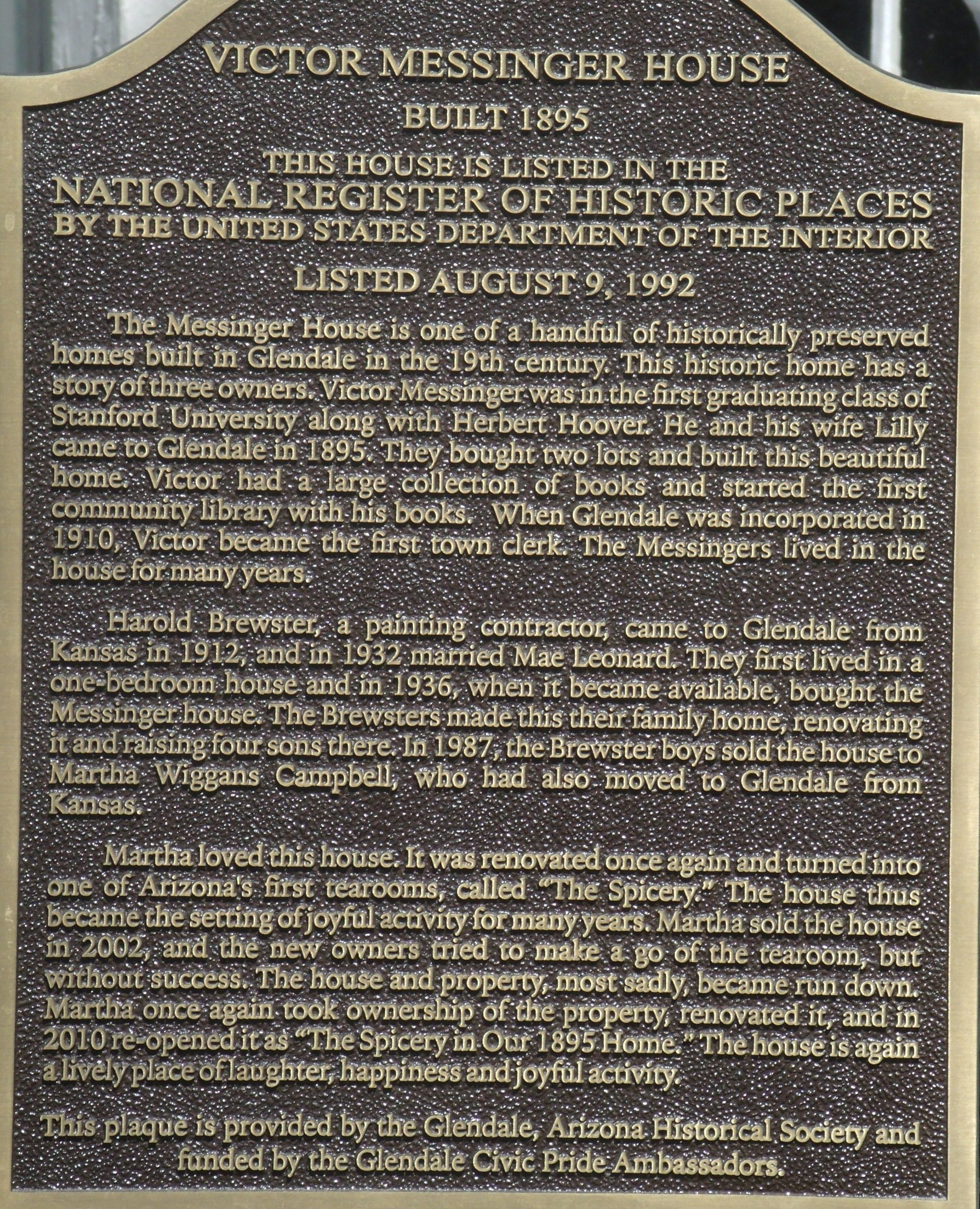 Plaque on the grounds of Victor Messingers House which is among the historic structures of the Catlin Histical District listed in the National Register of Historic Places in Glendale, Arizona.